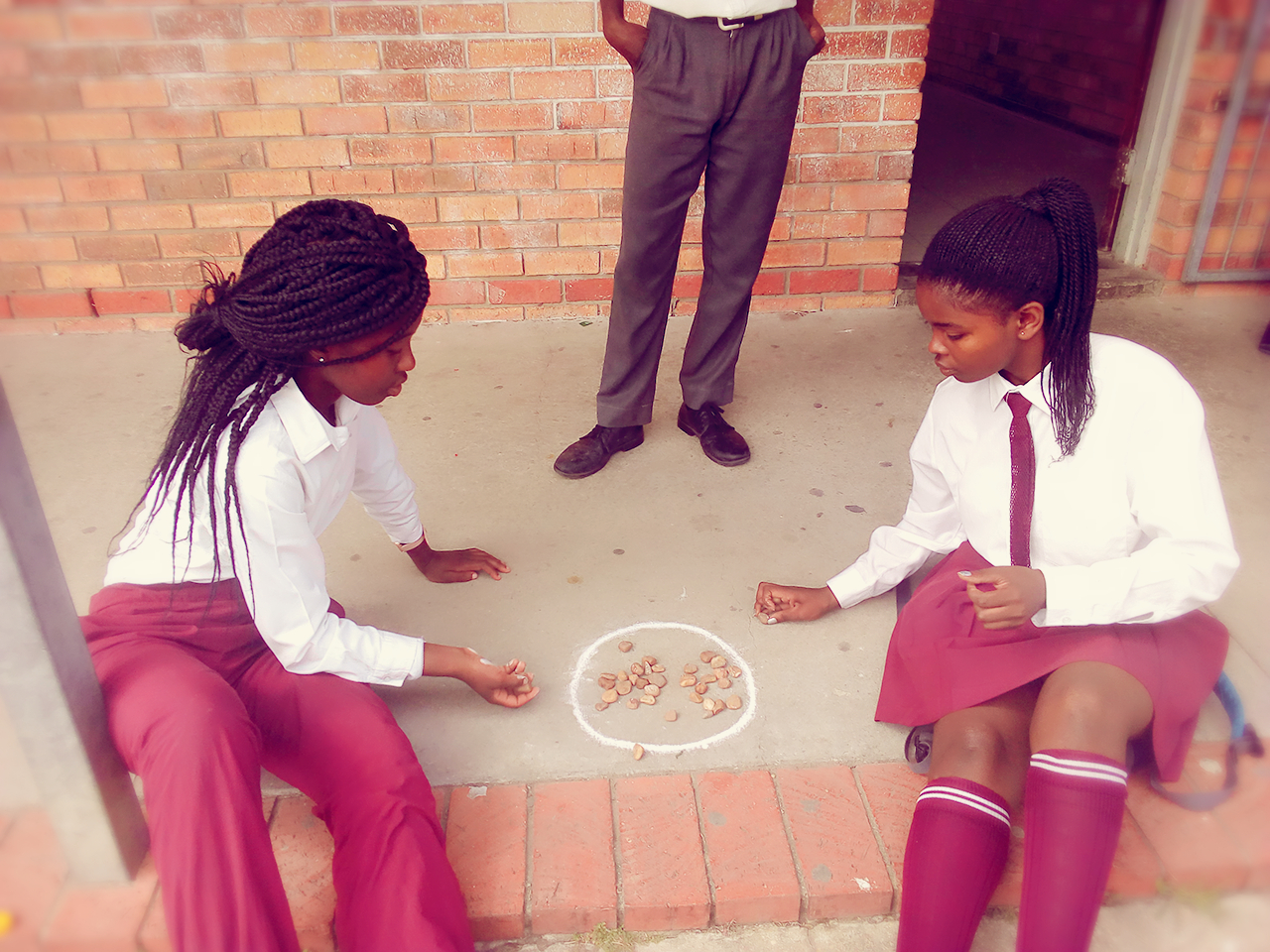 This is an image with the theme "Play" from: South Africa